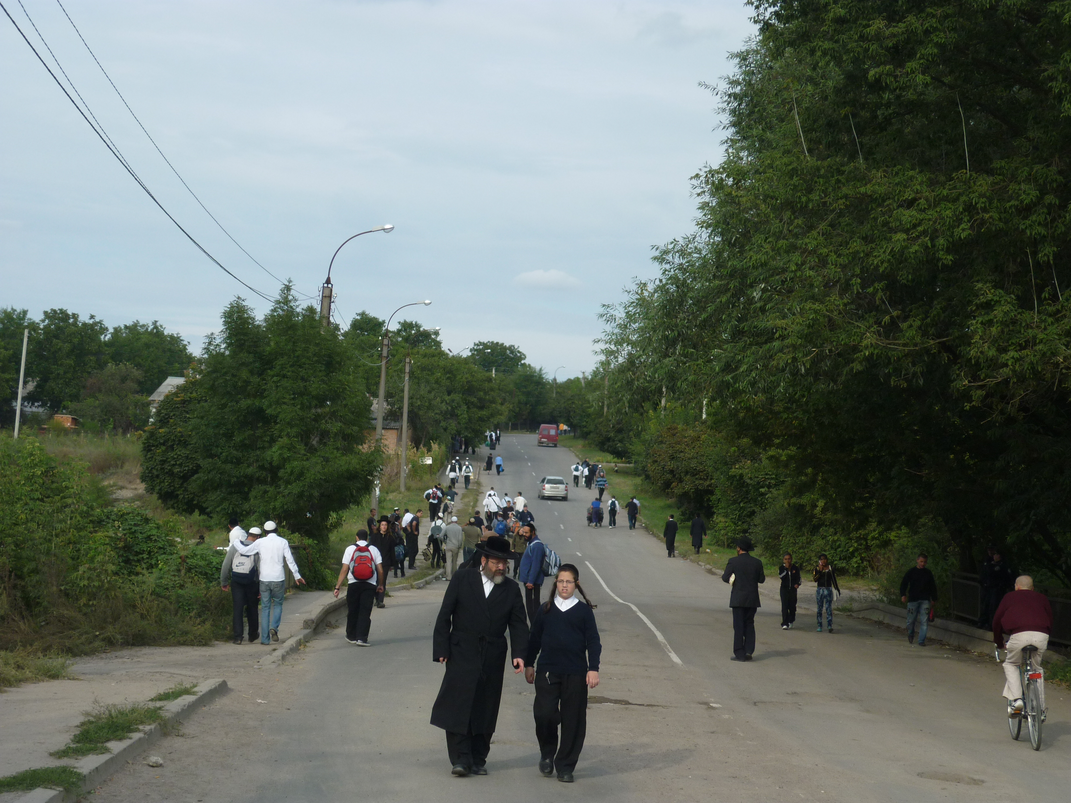 Hasidic peoples in Uman